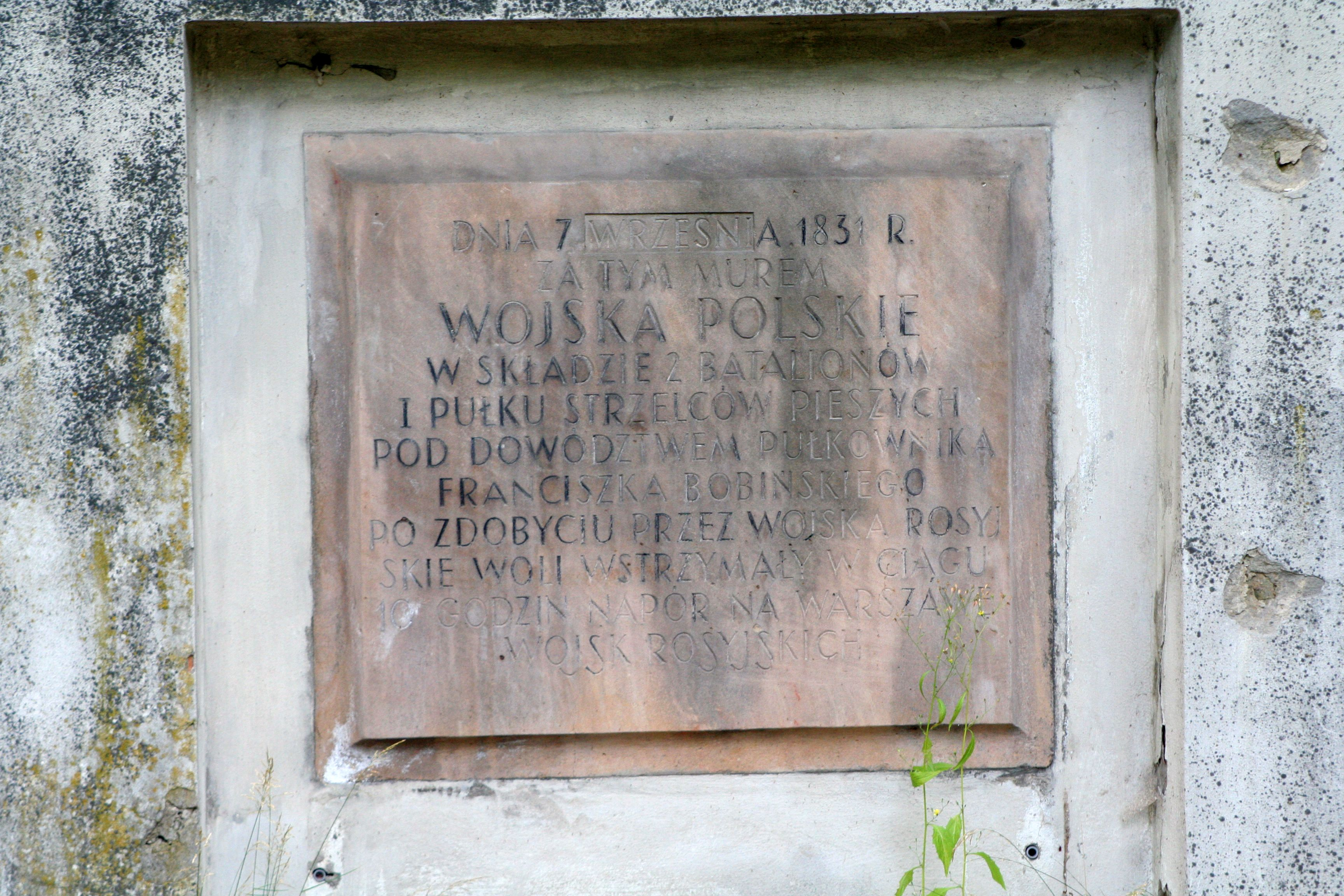 Memorial plaque at Evangelical-Augsburg Cemetery in Warsaw.